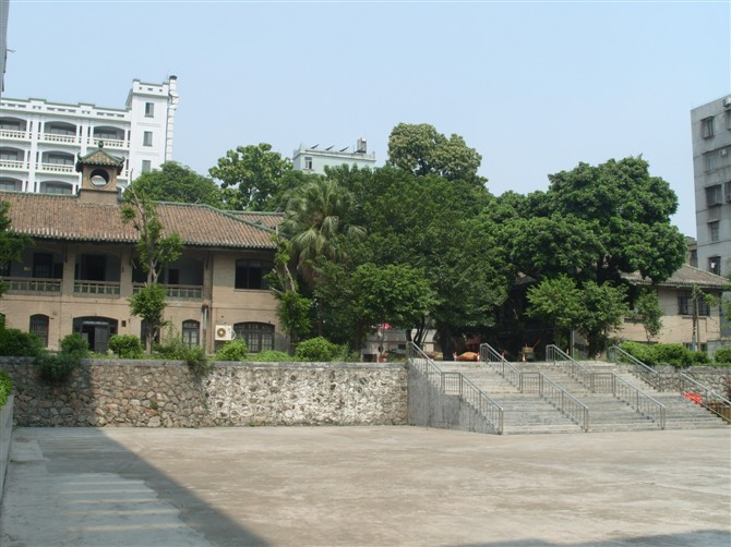 Old Crossing, Now Stairs